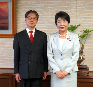 Yūji Iwasawa, Professor of the Graduate Schools for Law and Politics, University of Tokyo, met Yōko Kamikawa, Minister of Justice, at the Central Government Building No.6 in Chiyoda Ward, Tōkyō Metropolis on June 27, 2018.